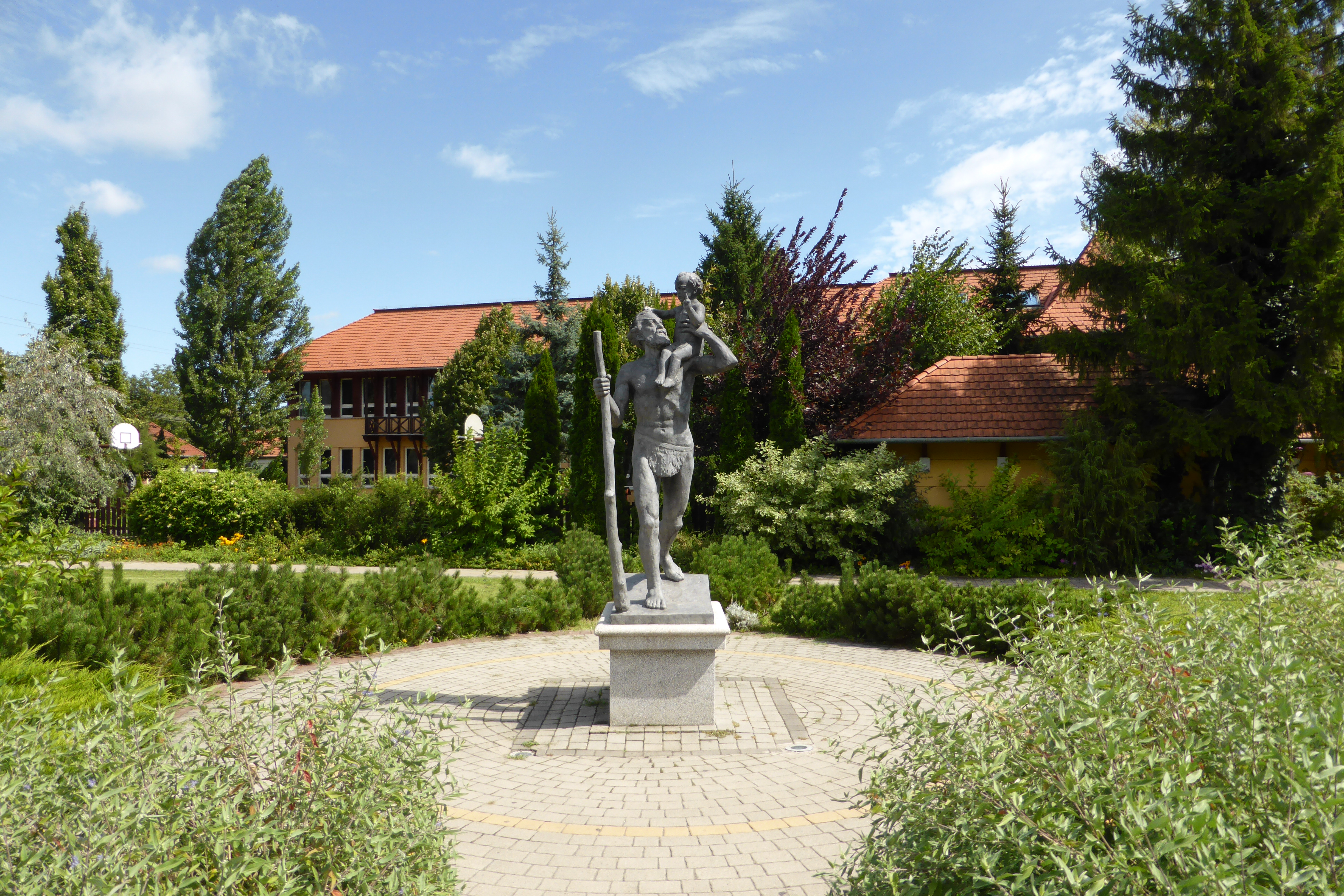 Tápiógyörgye statue 2014-08-24